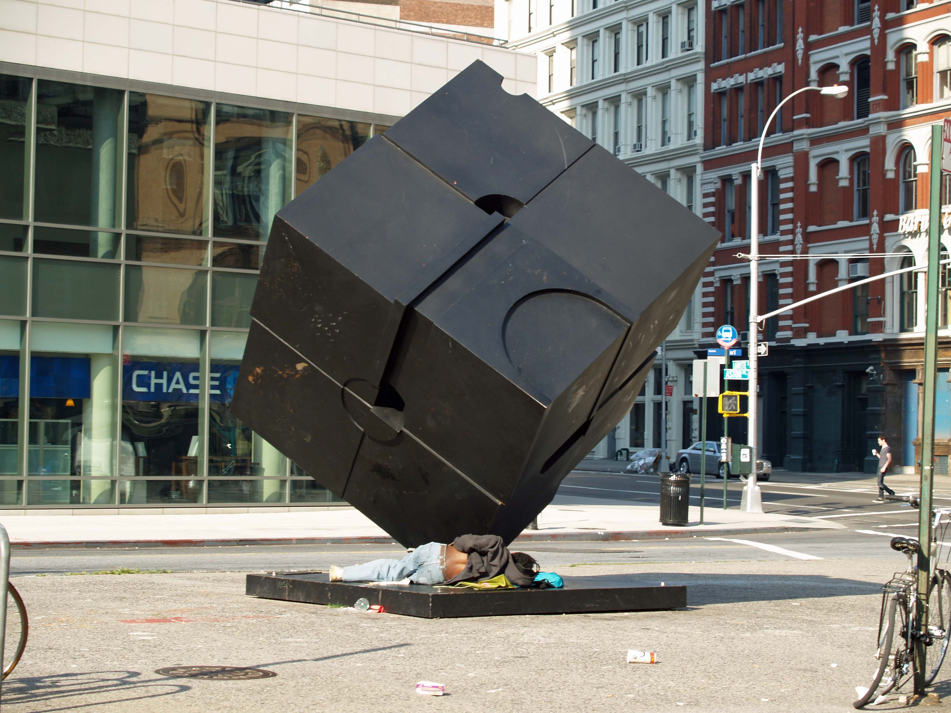 Tony Rosenthal's Alamo sculpture and homeless in the early morning at Astor Place by David Shankbone